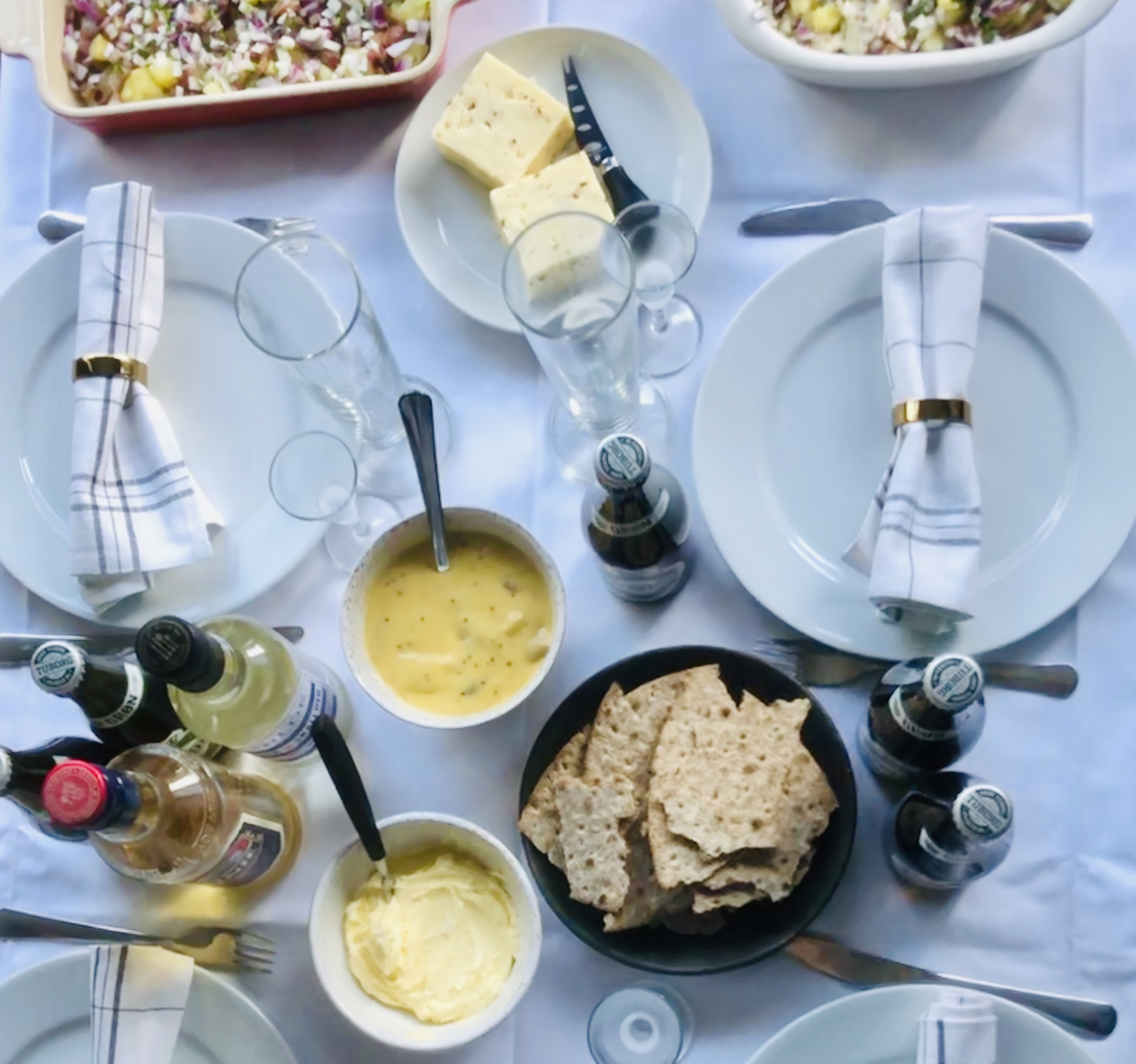 S.O.S - Swedish traditional dish with herring, cheese and butter.